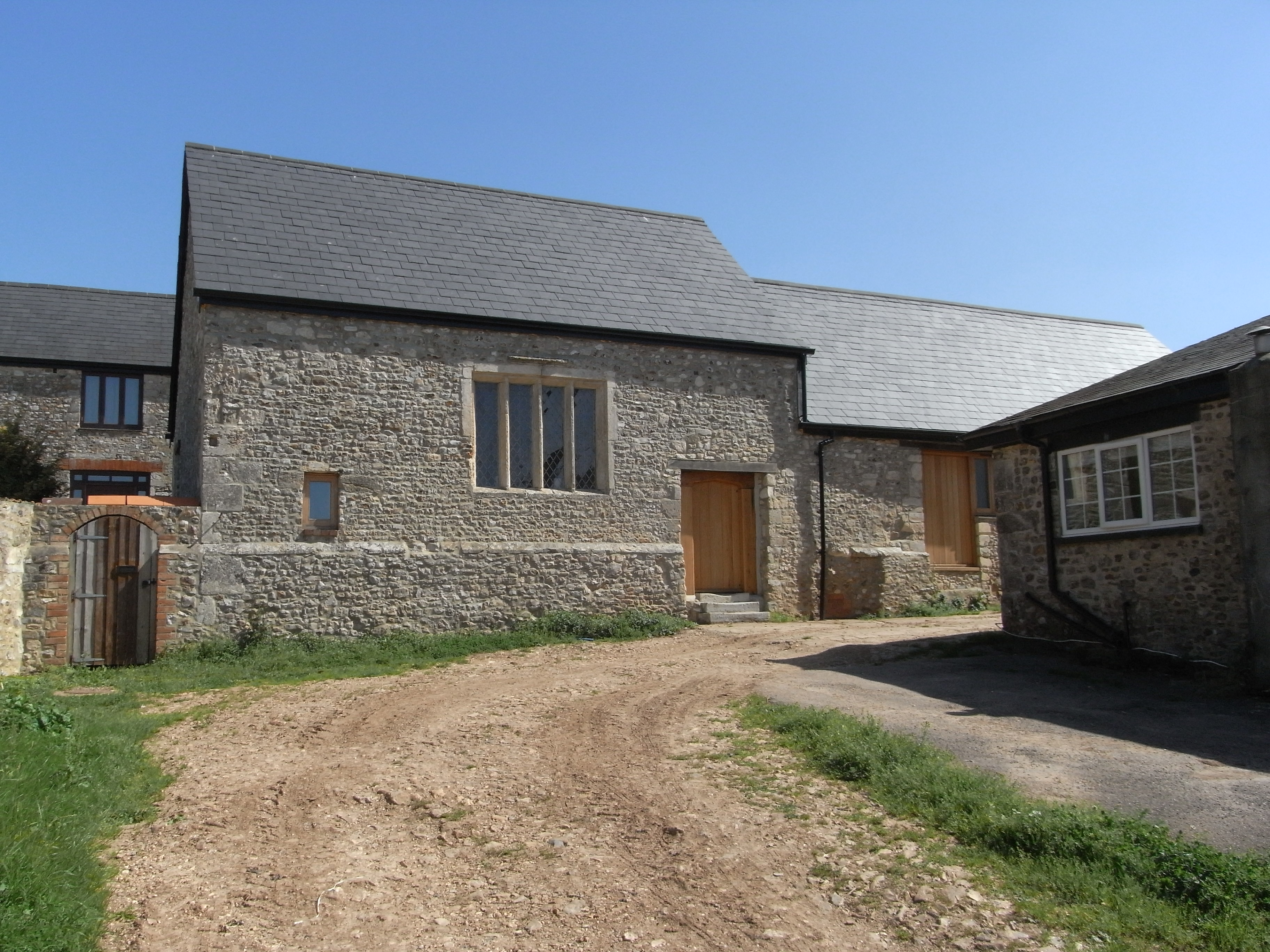 Ancient building formerly part of Colcombe Castle, Colyton, Devon, now in yard of Colcombe Abbey Farm, opposite main farmhouse.